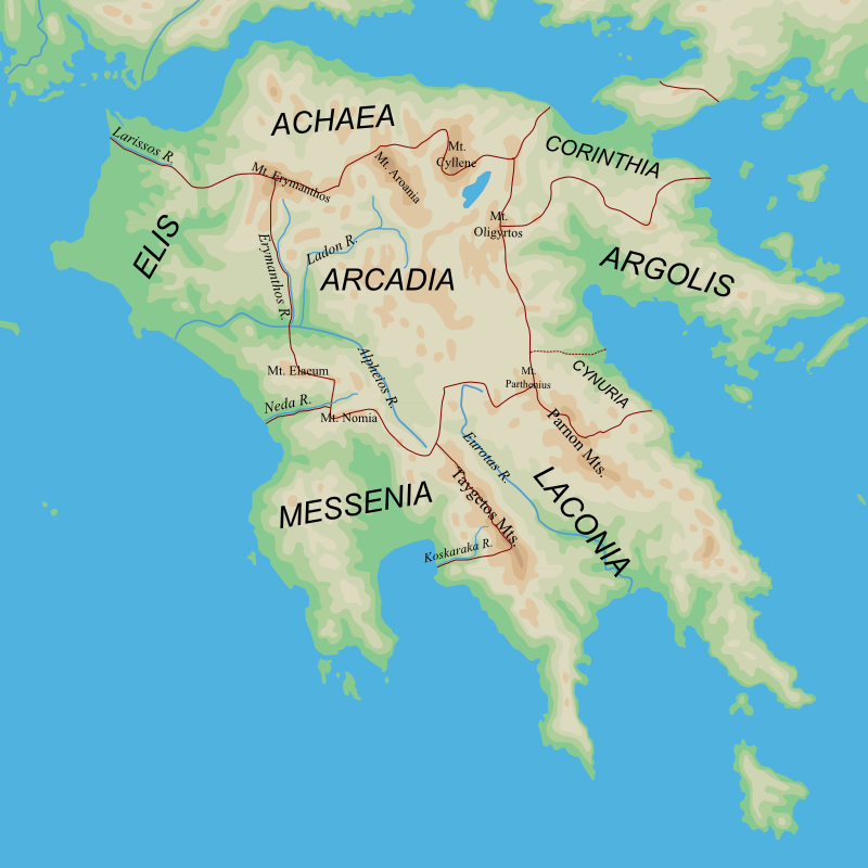 Map of the regions of the Ancient Peloponnese